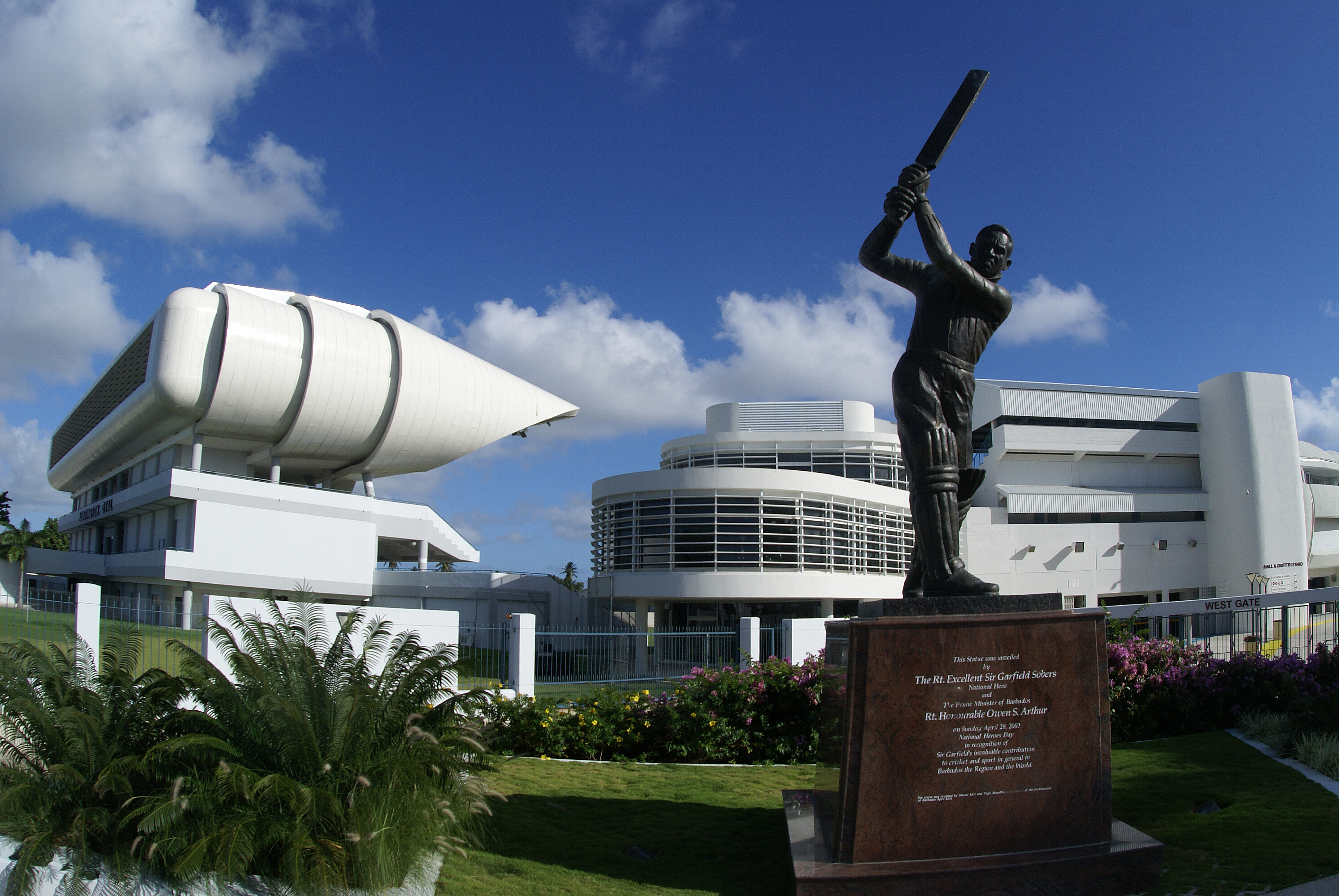 Fisheye shot of Sir Garfield Sobers, cricket legend and national hero, statue at Kensington Oval Cricket Ground in Barbados